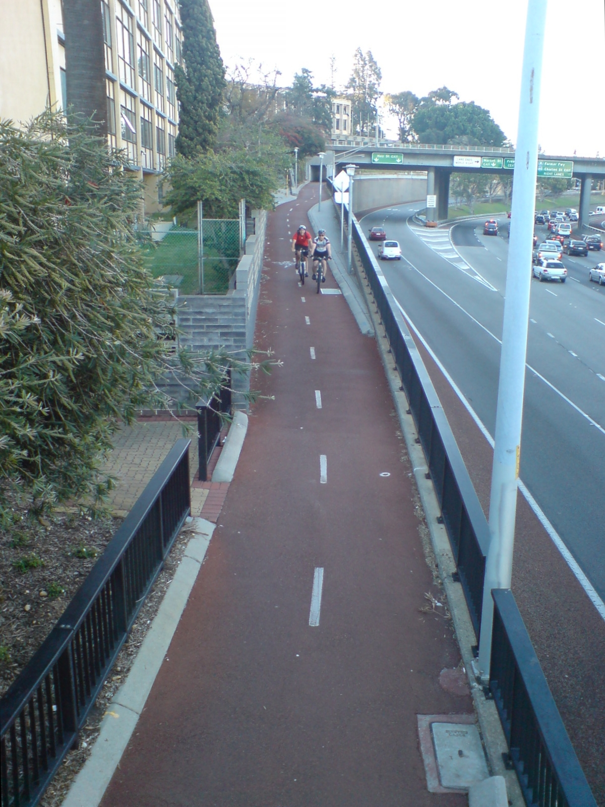 One of the Principal Shared Paths (PSPs) in Perth, Australia. Looking northwards near the CBD.